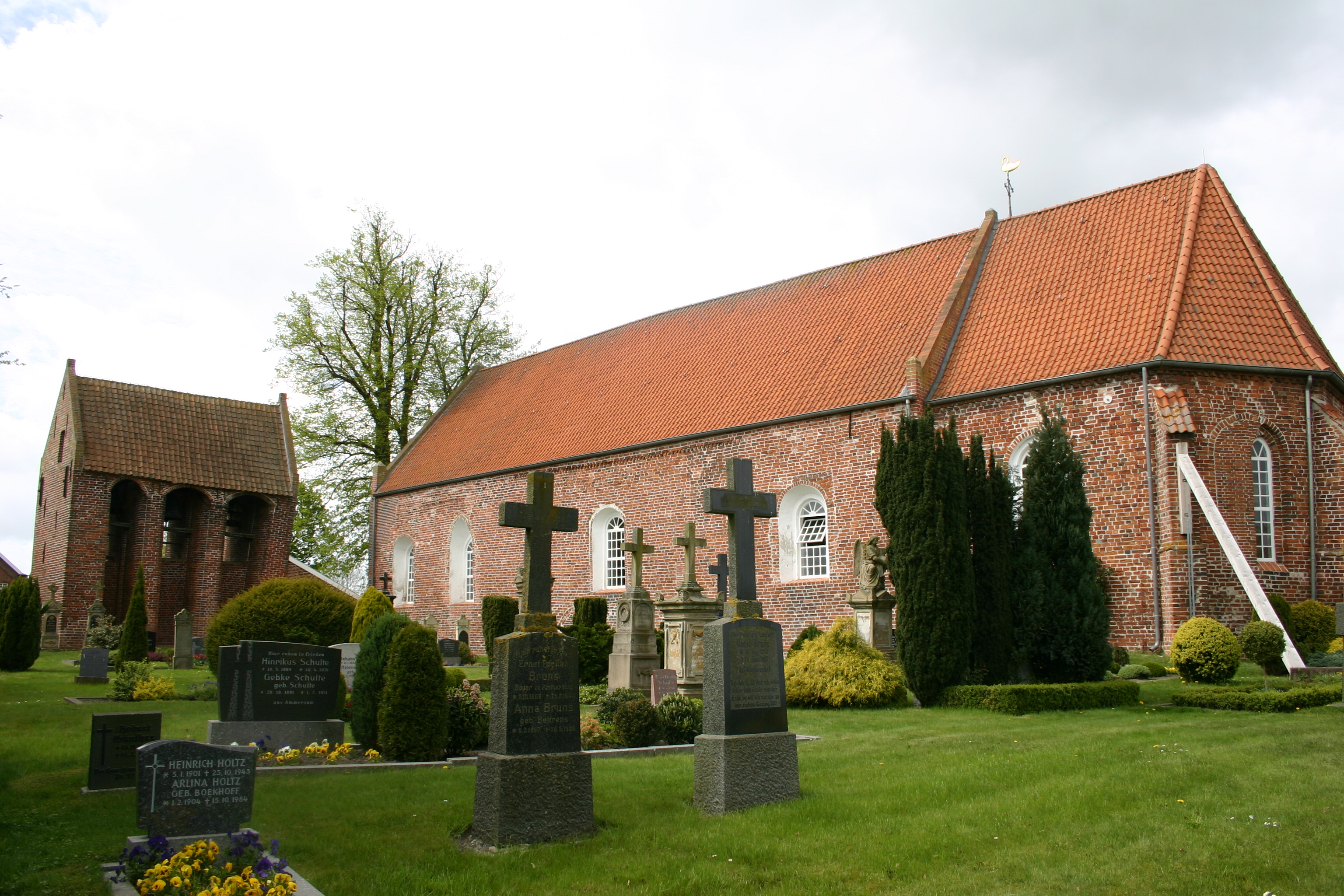 Historic Saint Paul Church in Filsum, district of Leer, East Frisia, Germany